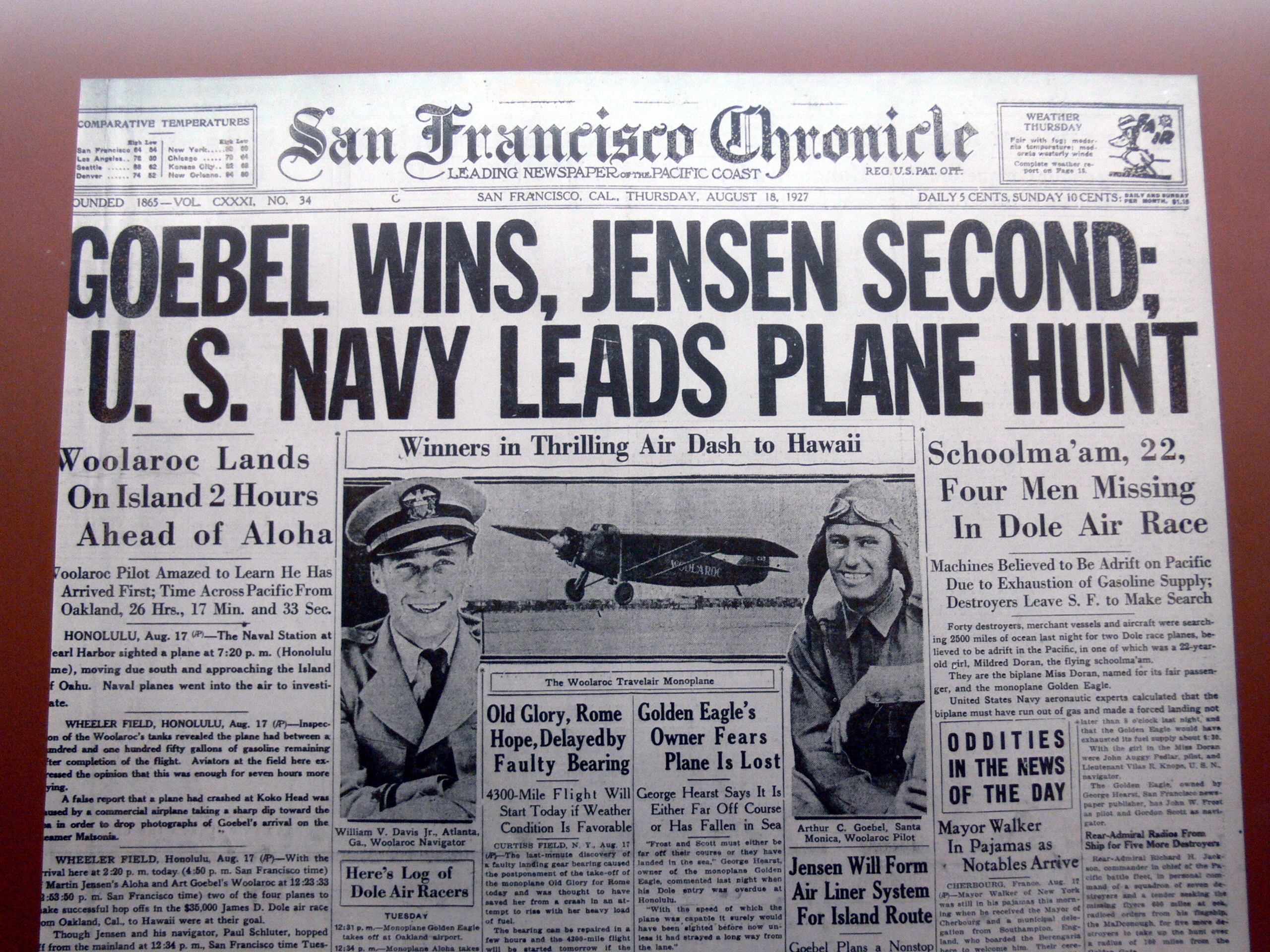 Woolaroc, Oklahoma. Frontpage of the "San Francisco Chronicle" 18-08-1927: Woorlaroc airplane arrives at Hawaii.